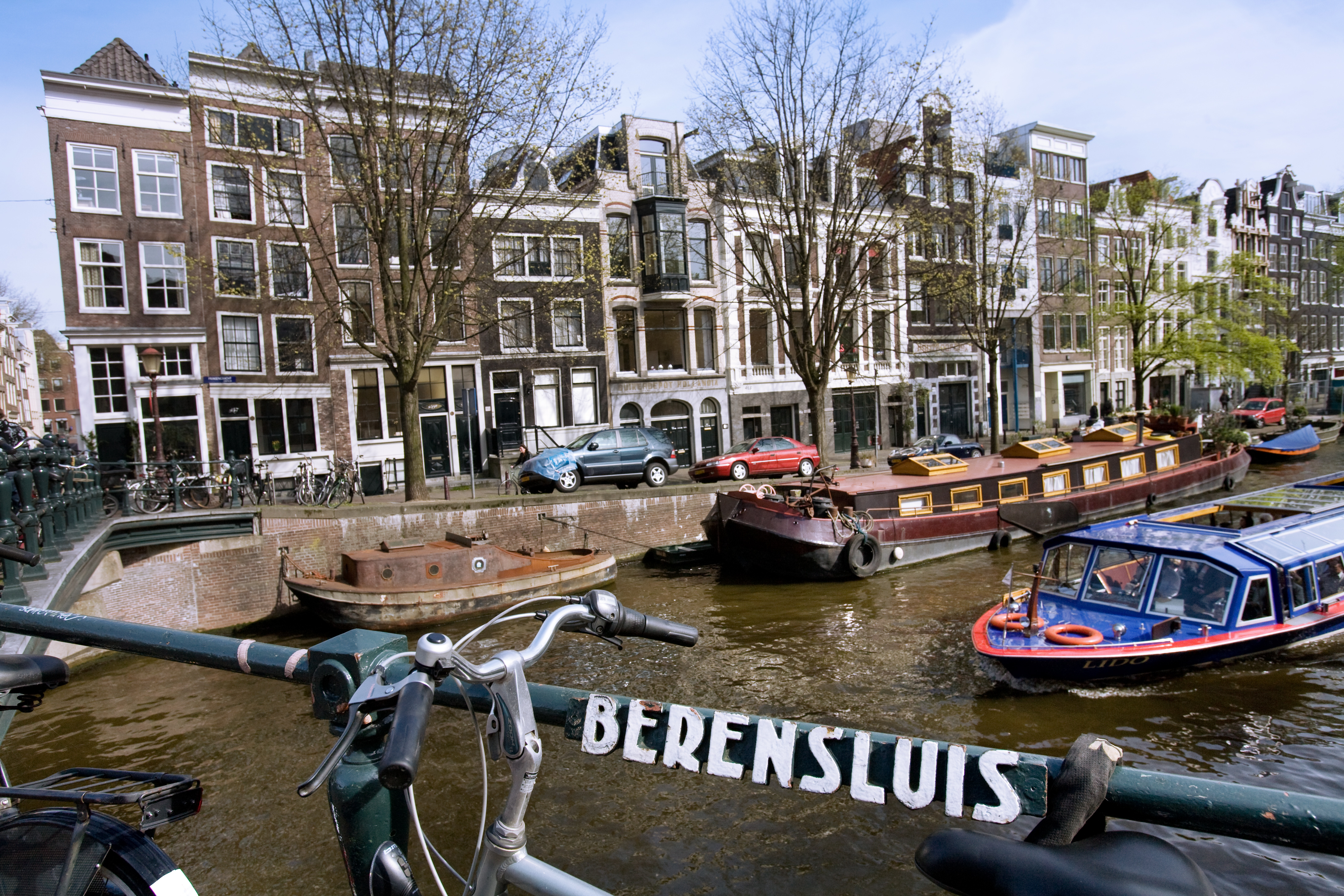 Berensluis Brug Bridge Amsterdam, The Netherlands This is an image of rijksmonument number 4334 This is an image of rijksmonument number 4335 This is an image of rijksmonument number 4336 This is an image of rijksmonument number 4337 This is an image of rijksmonument number 4338